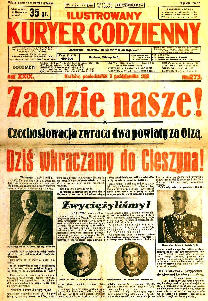 Front page of the Polish daily Ilustrowany Kuryer Codzienny, issue of October 3, 1938